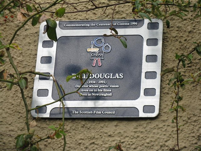 Plaque for Bill Douglas, Film Director Bill Douglas [1934-1991] was born in the mining village of Newcraighall. His professional work retraced events of his own childhood and early adult life, as The Trilogy, comprising My Childhood (1972), My Ain Folk (1973) and My Way Home (1978) which won many international awards. His next project, the epic Comrades, took eight years to realise, finally emerging in 1987 as a three-hour account of the nineteenth-century trade union pioneers the Tolpuddle Martyrs